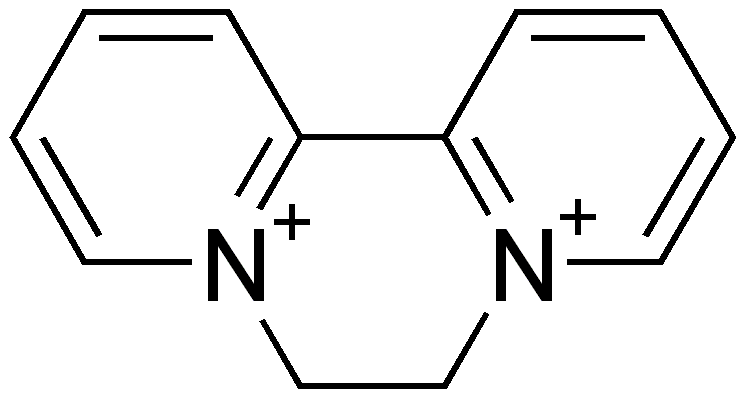 Chemical structure of diquat